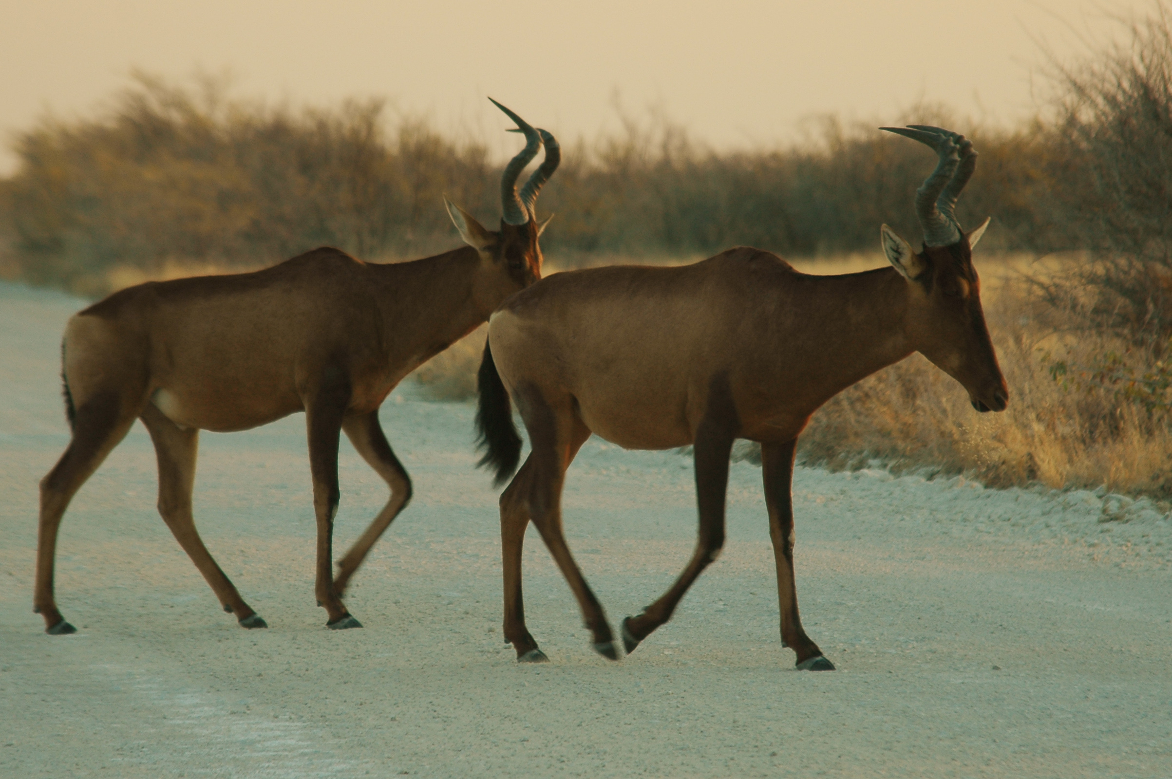 HARTEBEEST (Alcelaphus caama) Namibie Etosha National Park Photographie prise par GIRAUD Patrick